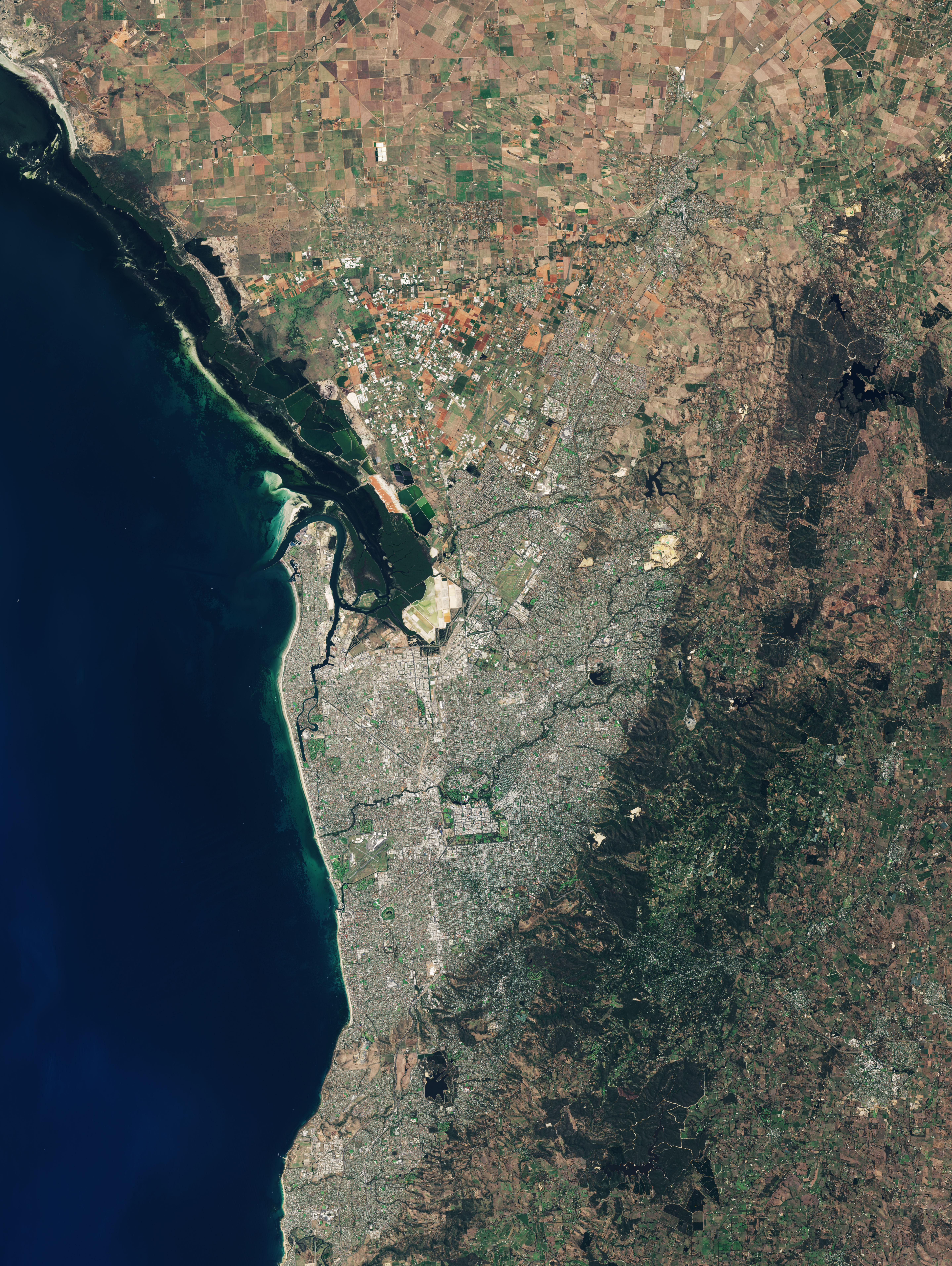 South Australia’s city of Adelaide seen by the Copernicus Sentinel-2A satellite on 27 January 2017. Sentinel-2 provides important information for monitoring vegetation. Its multispectral instrument has 13 spectral bands and is the first of its kind to include three bands in the ‘red edge’, which provide key data on vegetation state. The mission was designed to provide images that can be used to distinguish between different crop types as well as data on numerous plant indices, such as leaf area, leaf chlorophyll and leaf water – all essential to monitor plant growth accurately.